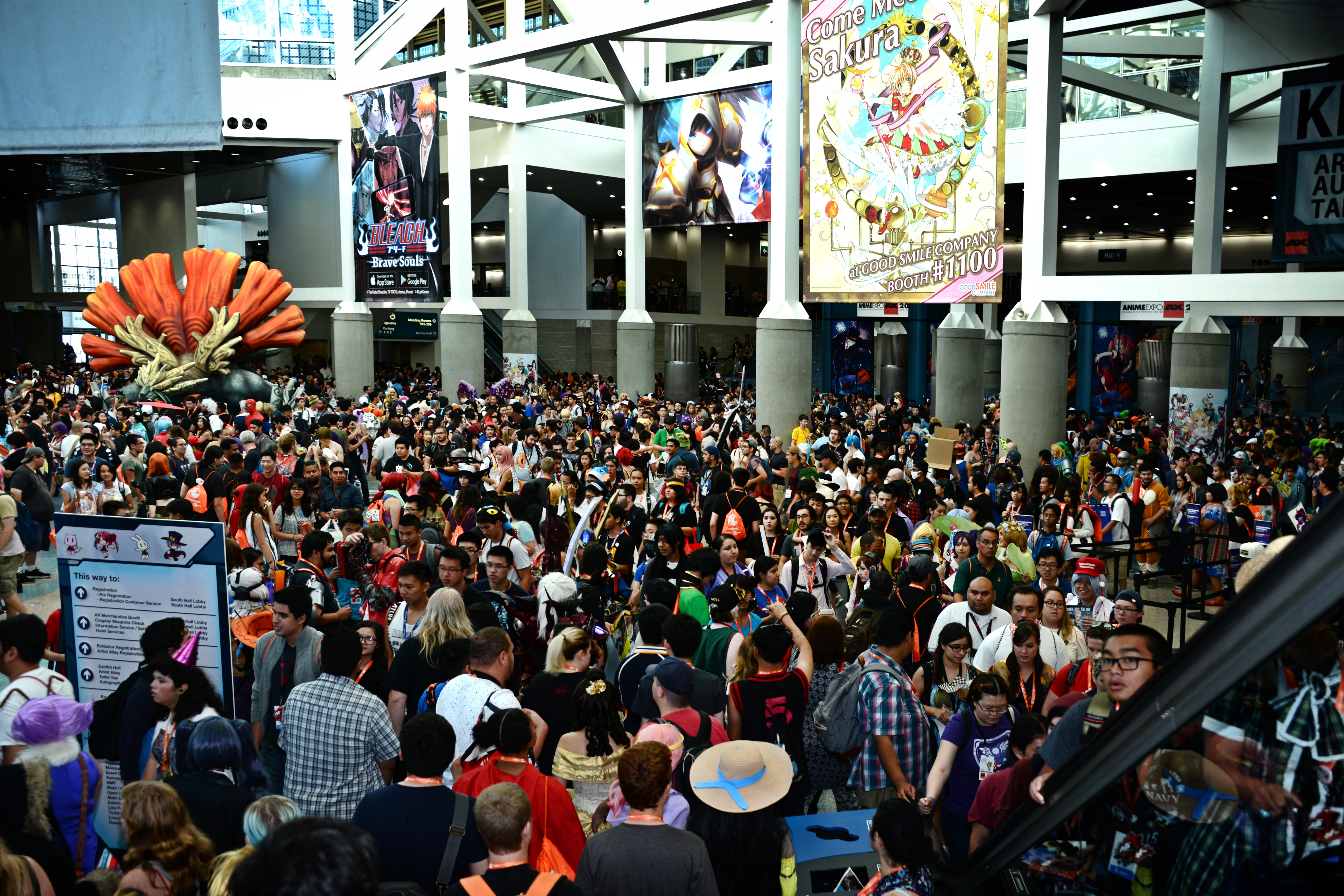 Attendees at the Anime Expo at the Los Angeles Convention Center in Los Angeles California on July 1, 2016 - Photo by Glenn Francis of w